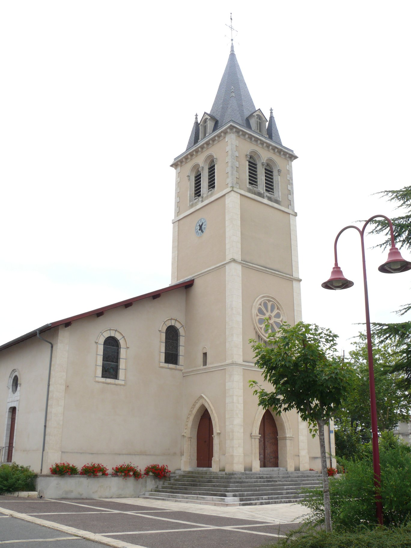 Saints-Peter-and-Paul's church of Habas (Landes, Aquitaine, France).